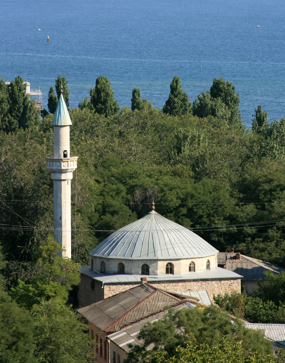 Mufti-Dzhami mosque in Theodosia, Crimea, built in the 17th century